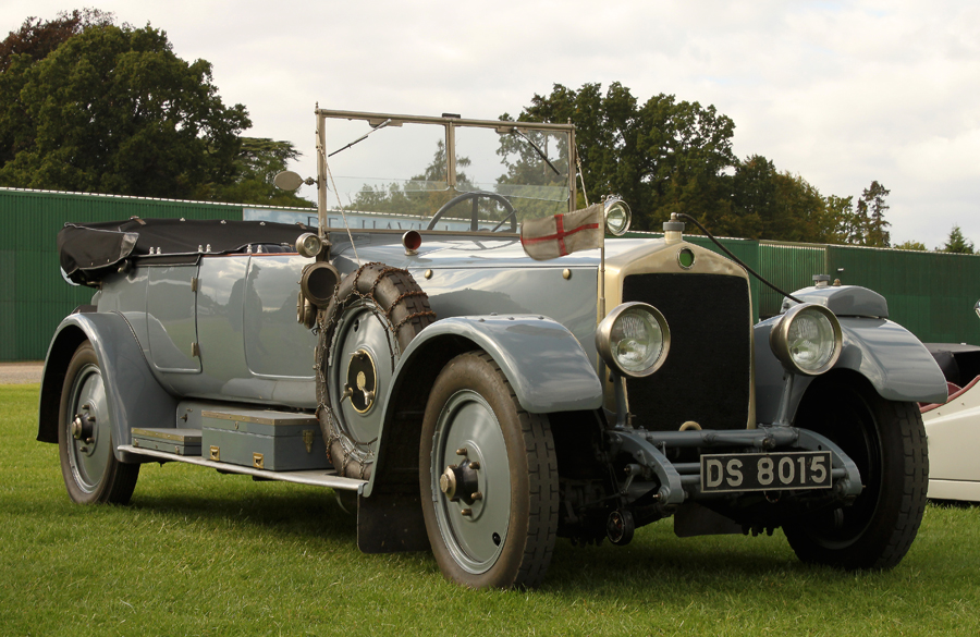 1925 Lanchester 40 tourer (DVLA) manufactured 1925, 6178 cc Evening Air Display / Meet the pilots 2010 to Old Warden and the Shuttleworth Collection